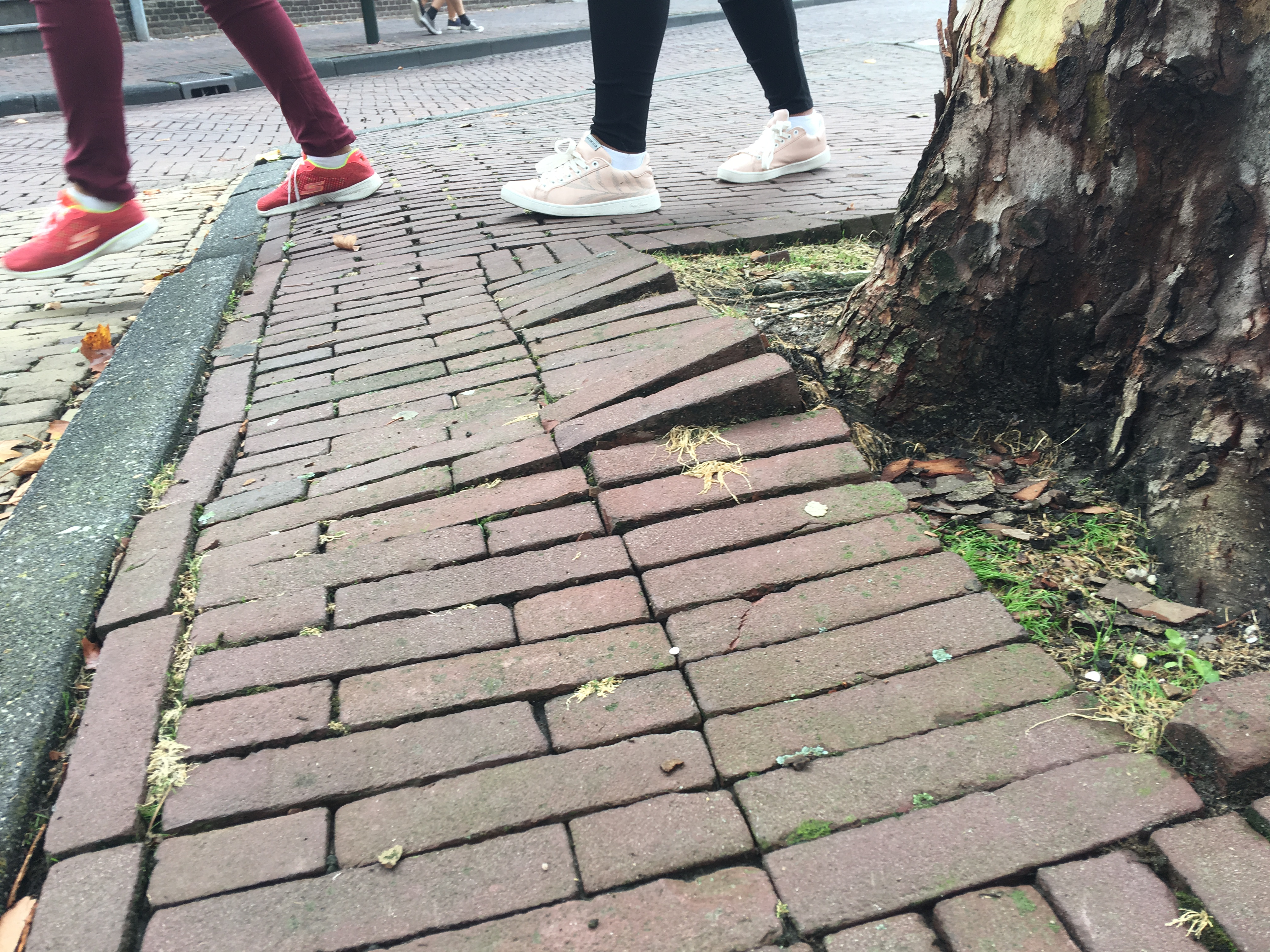 Dangerous sidewalk